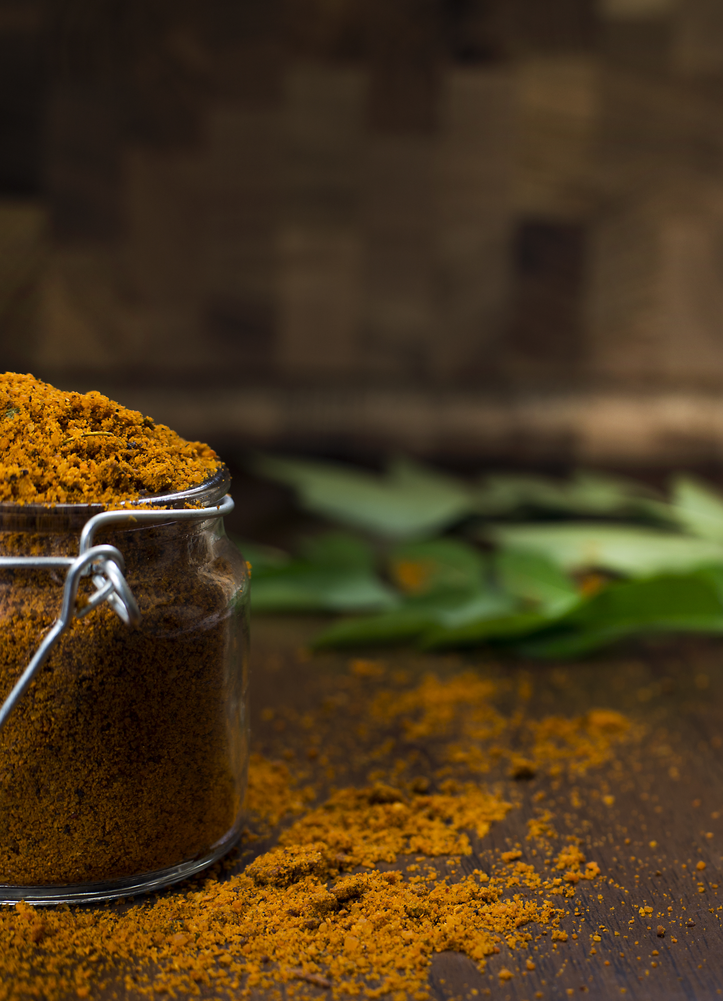 Dry Chutney powder or Chutney Pudi, Karnataka Style - A Spiced accompaniment to crisp Dosas, fluffy Idlis and many other South Indian Breakfast dishes.